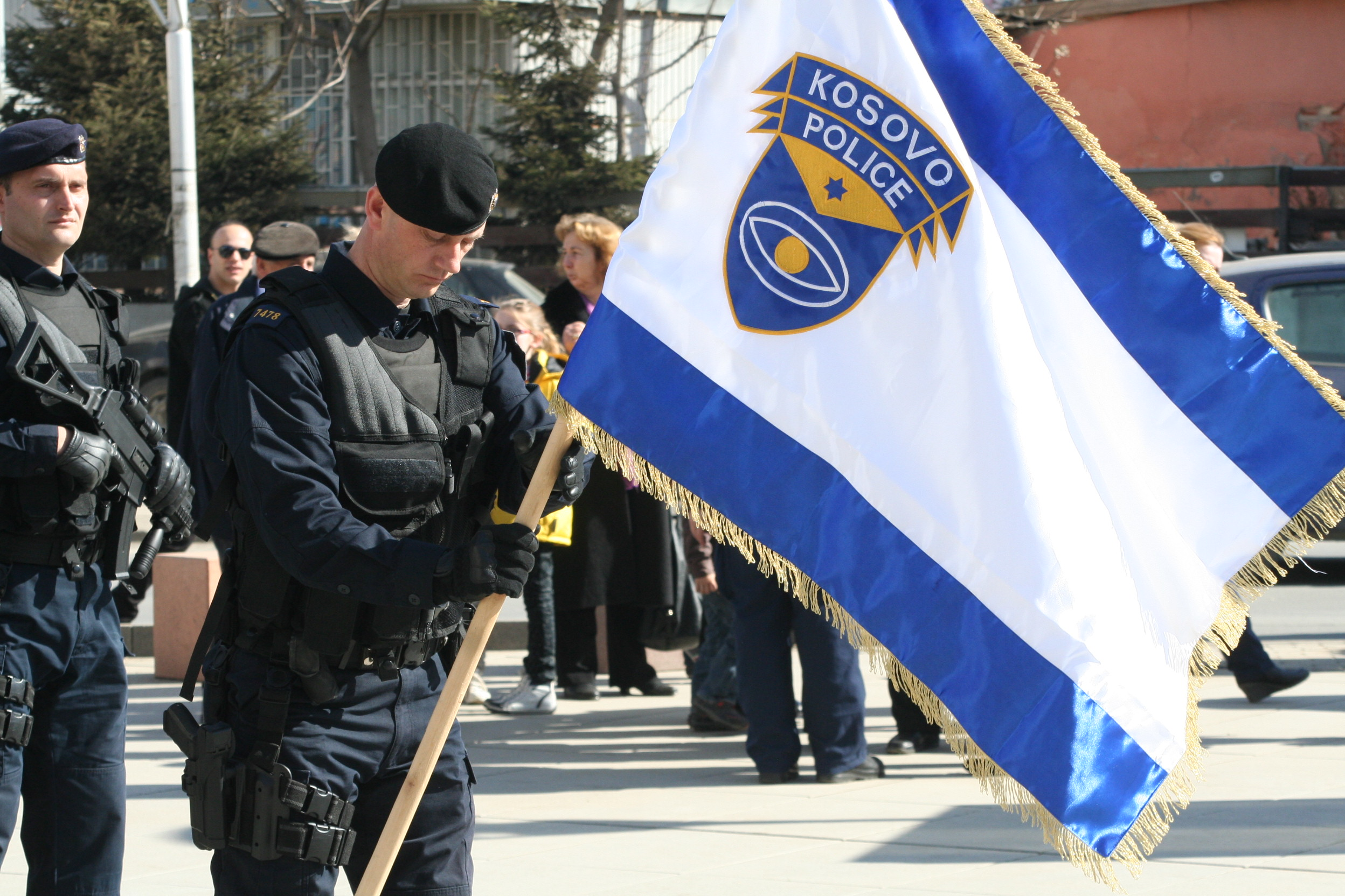 Units of the Kosovo Armed Forces, Kosovo Police and Correctional Services paraded in “Zahir Pjaziti” square for the sixth anniversary of the declaration of independence of Kosovo.